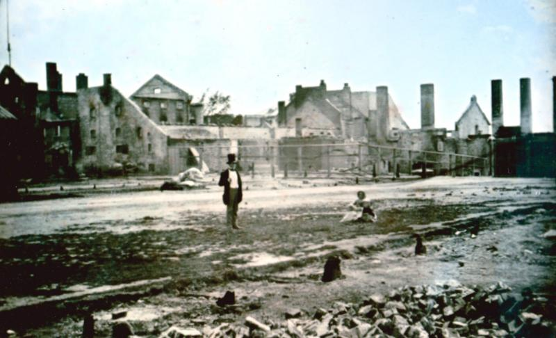 Molson's Brewery probably after the fire of July 1852